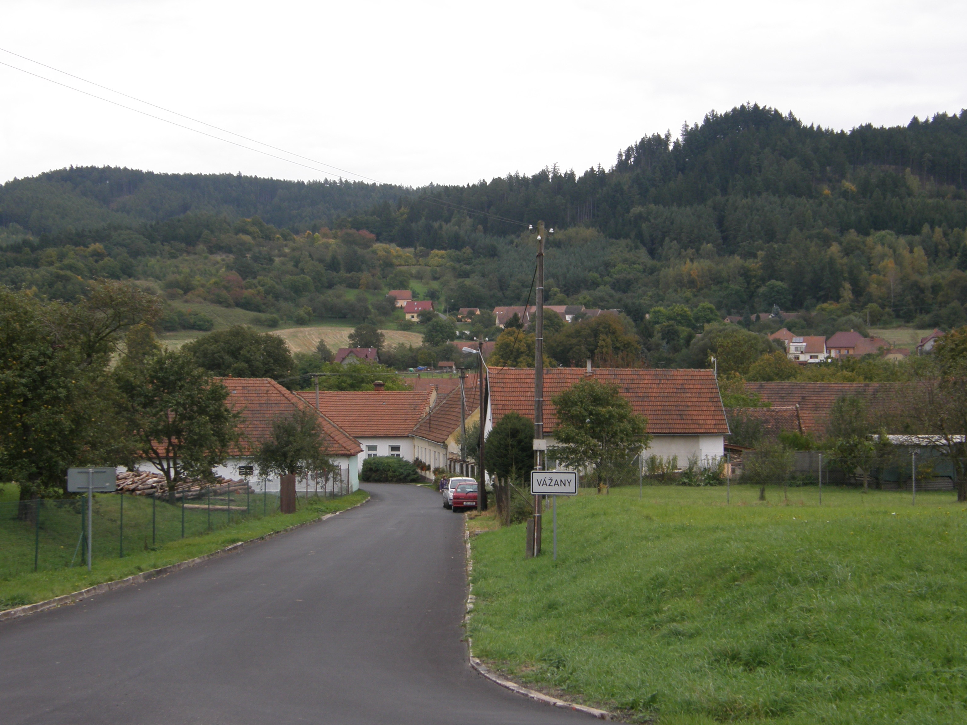 Vážany